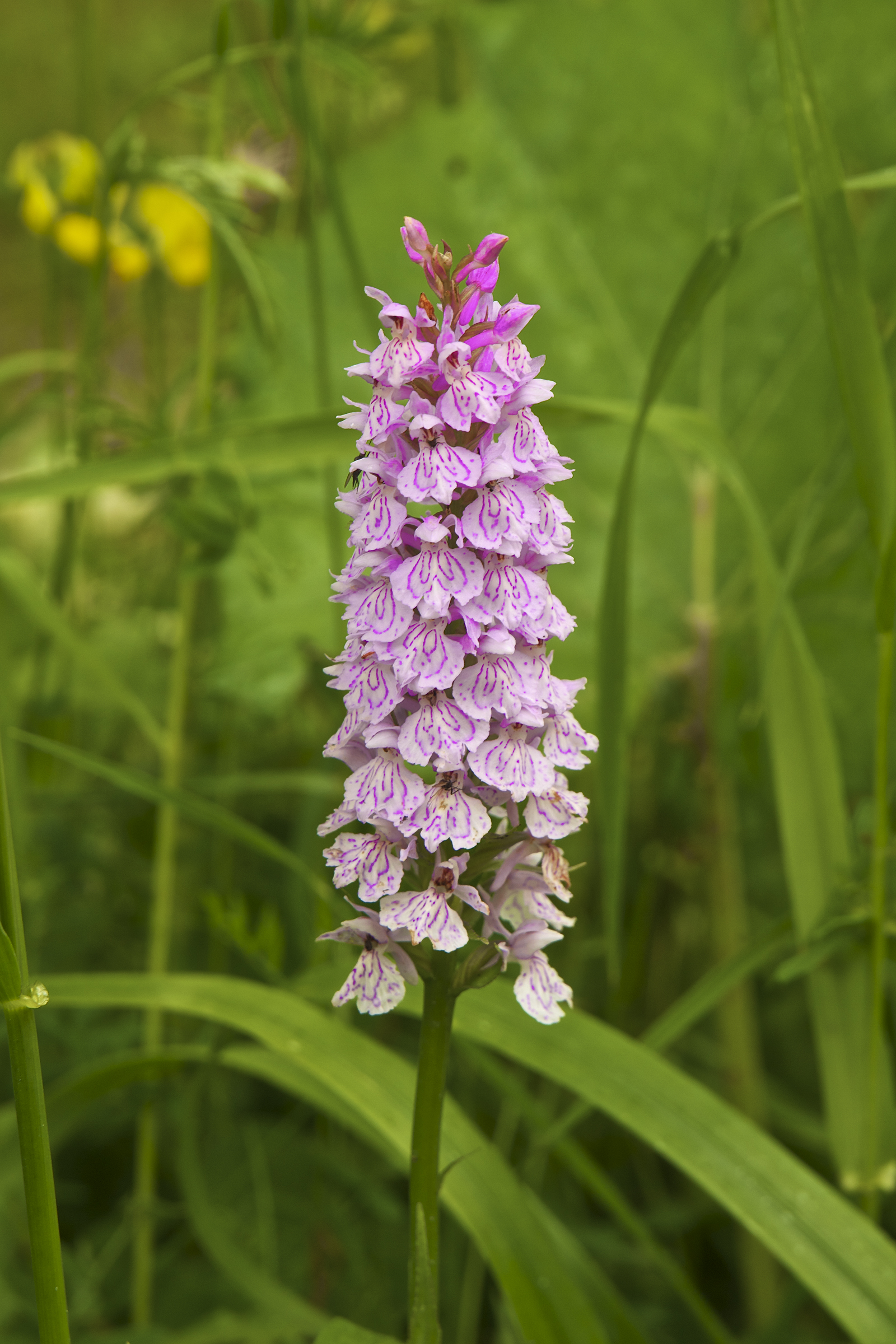 Heath Spotted Orchid (Dactylorhiza maculata), Lengefeld, Germany